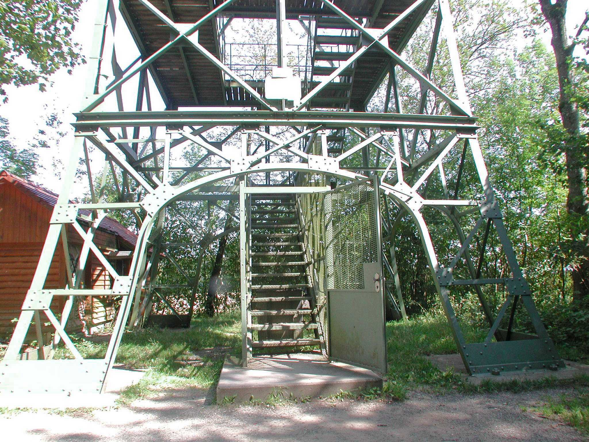 Gehrenberg public viewing tower entrance